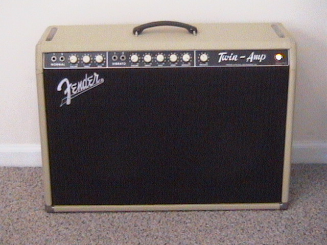 1963 Blonde Tolex Fender Twin-Amp with Oxblood grille cloth. SN:00499 Owner: Steve Boozer